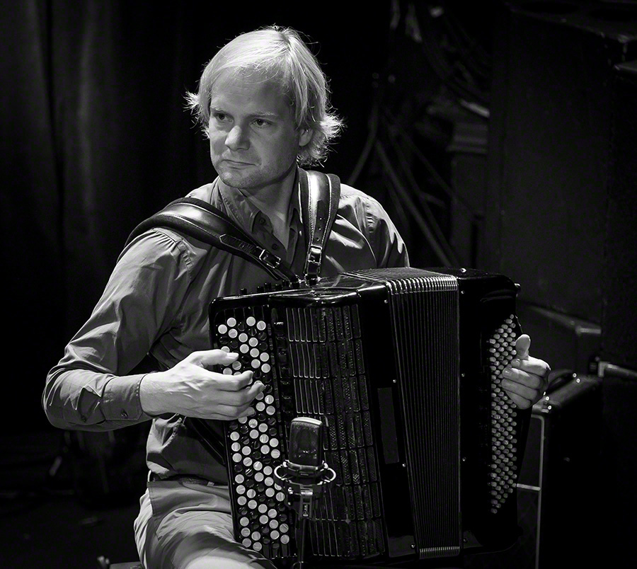 Frode Haltli performs with Trygve Seim at the stage of Nasjonal Jazzscene Victoria. The concert was part of the Oslo Jazz Festival in Norway and took place on 20. August 2016. Lineup:Trygve Seim (saxophone)Tora Augestad (vocal)Frode Haltli (accordion)Svante Henryson (cello)Erling Kittelsen (spoken words)